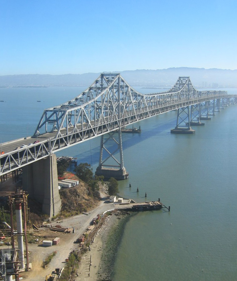 San Francisco-Oakland Bay Bridge as of September 2007